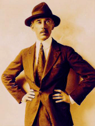 The inventor and pioneer of aviation Alberto Santos-Dumont